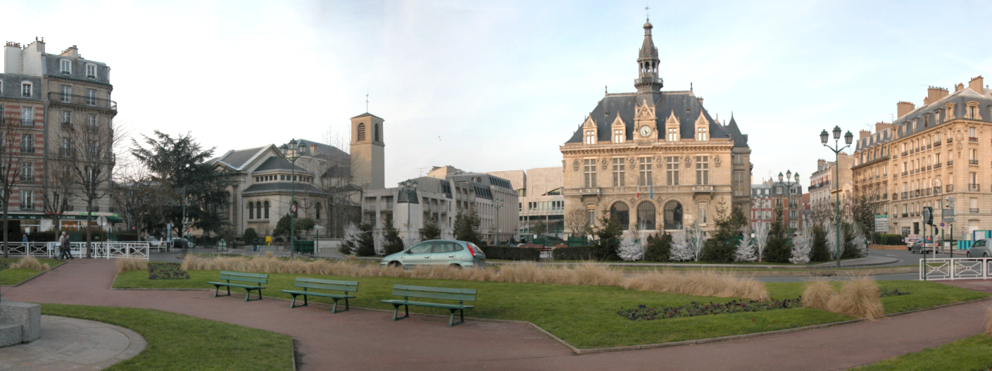 Panoramic picture of Vincennes Church and Vincennes City Hall - France